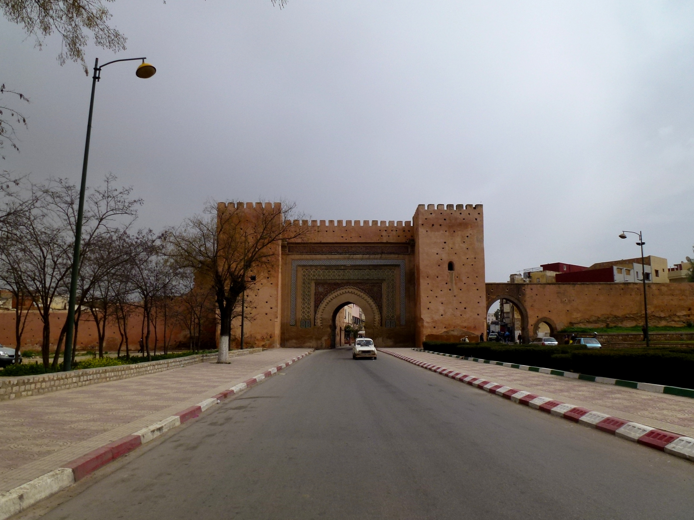 Bab El Khemis Gate Meknes Morocco